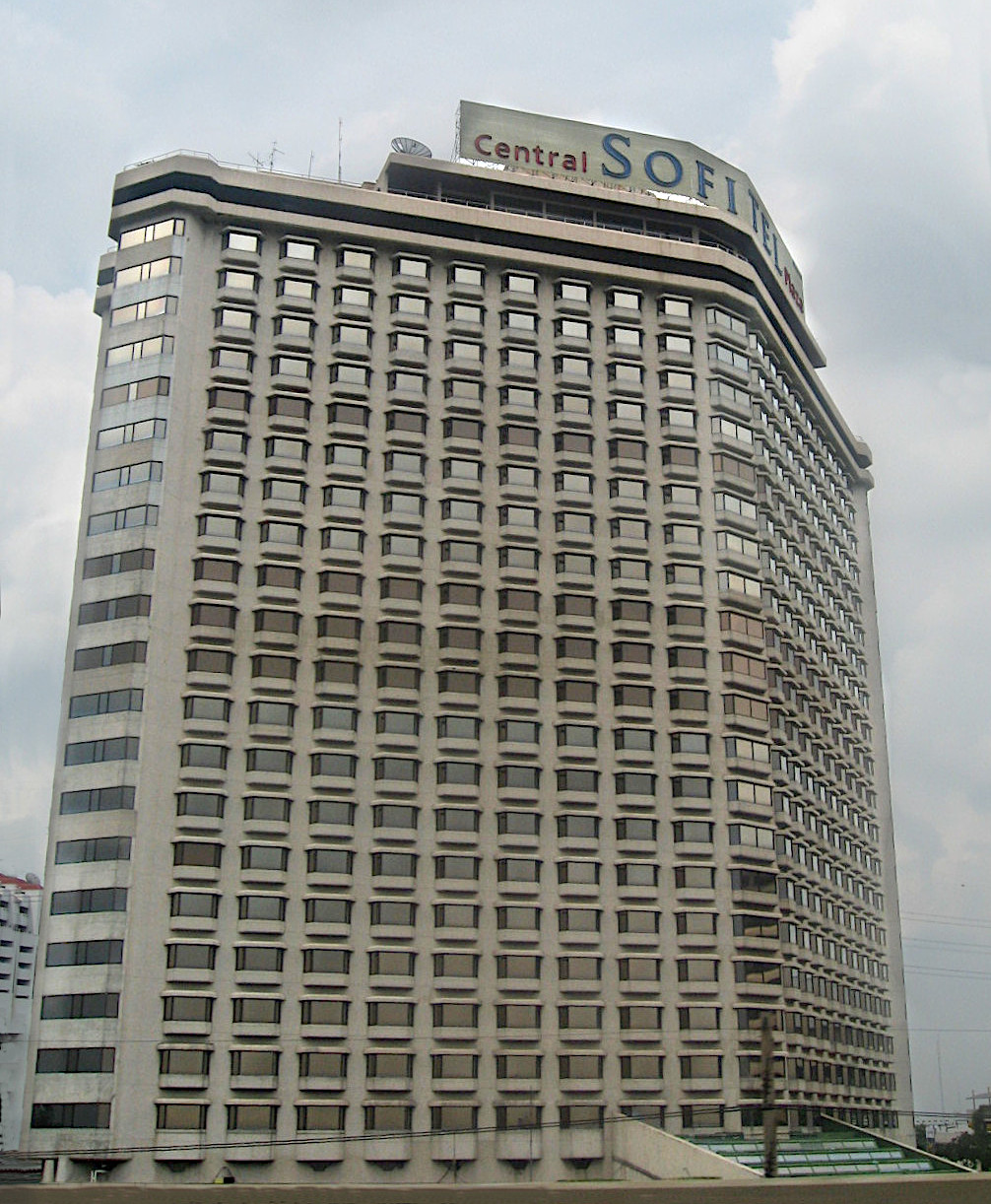 Central Sofitel Bangkok. Taken by Terence Ong in June 2006.